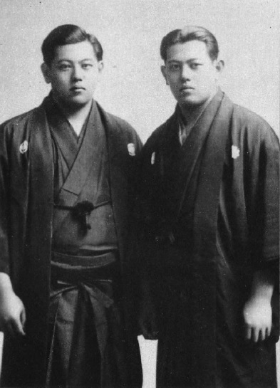 Japanese judoka and businessperson, Eiji Abe (left) and Dairoku Abe (right).